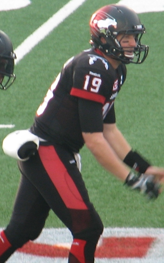 Bo Levi Mitchell, starting quarterback for the Calgary Stampeders, on the field at McMahon Stadium during the Canadian Football League's Western Division Final on 23 November 2014. In the backfield is Jon Cornish.